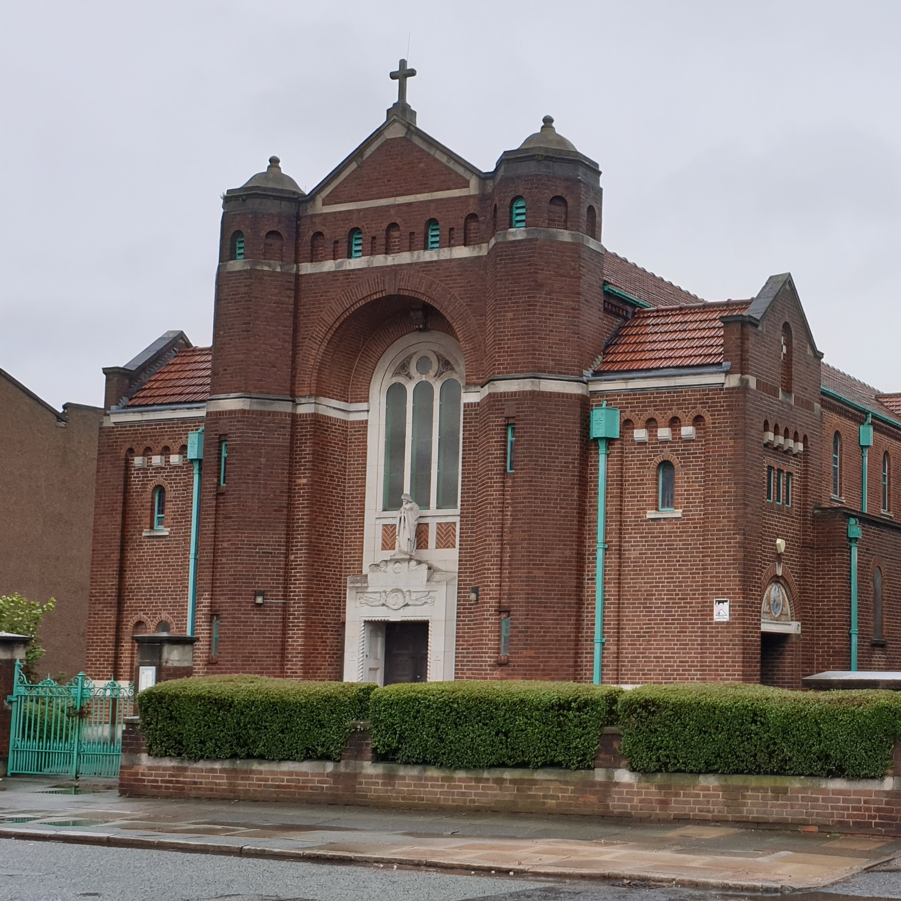 St Cecilia's Church, Liverpool